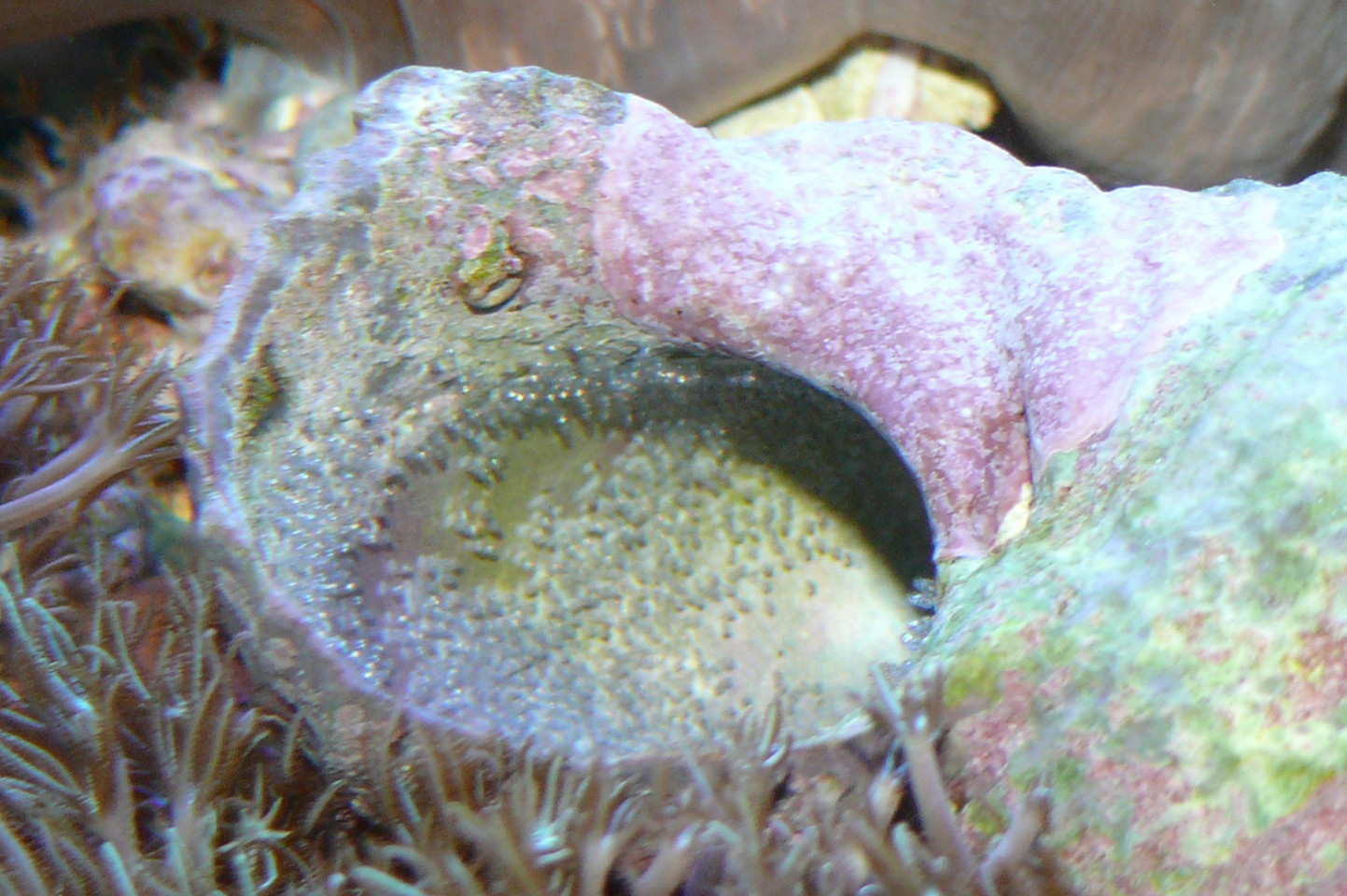 spawn of Chrysiptera hemicyanea in a gastropod shell